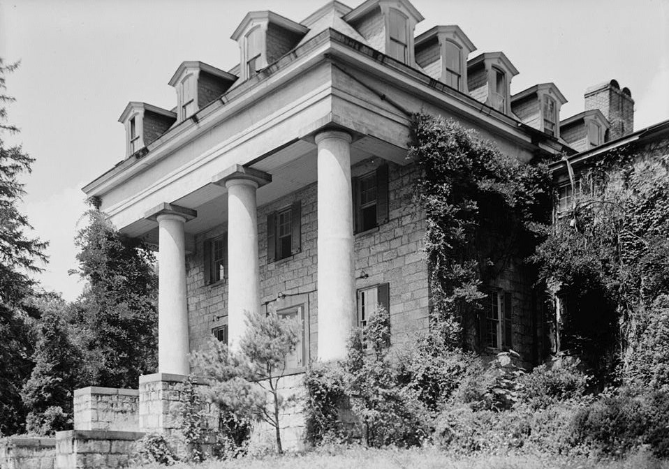 Patapsco Female Institute, Church Road, Berg Alnwick, Ellicott City (Howard County, Maryland). Cropped photo.